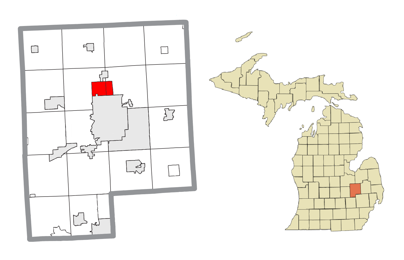 Beecher, MI